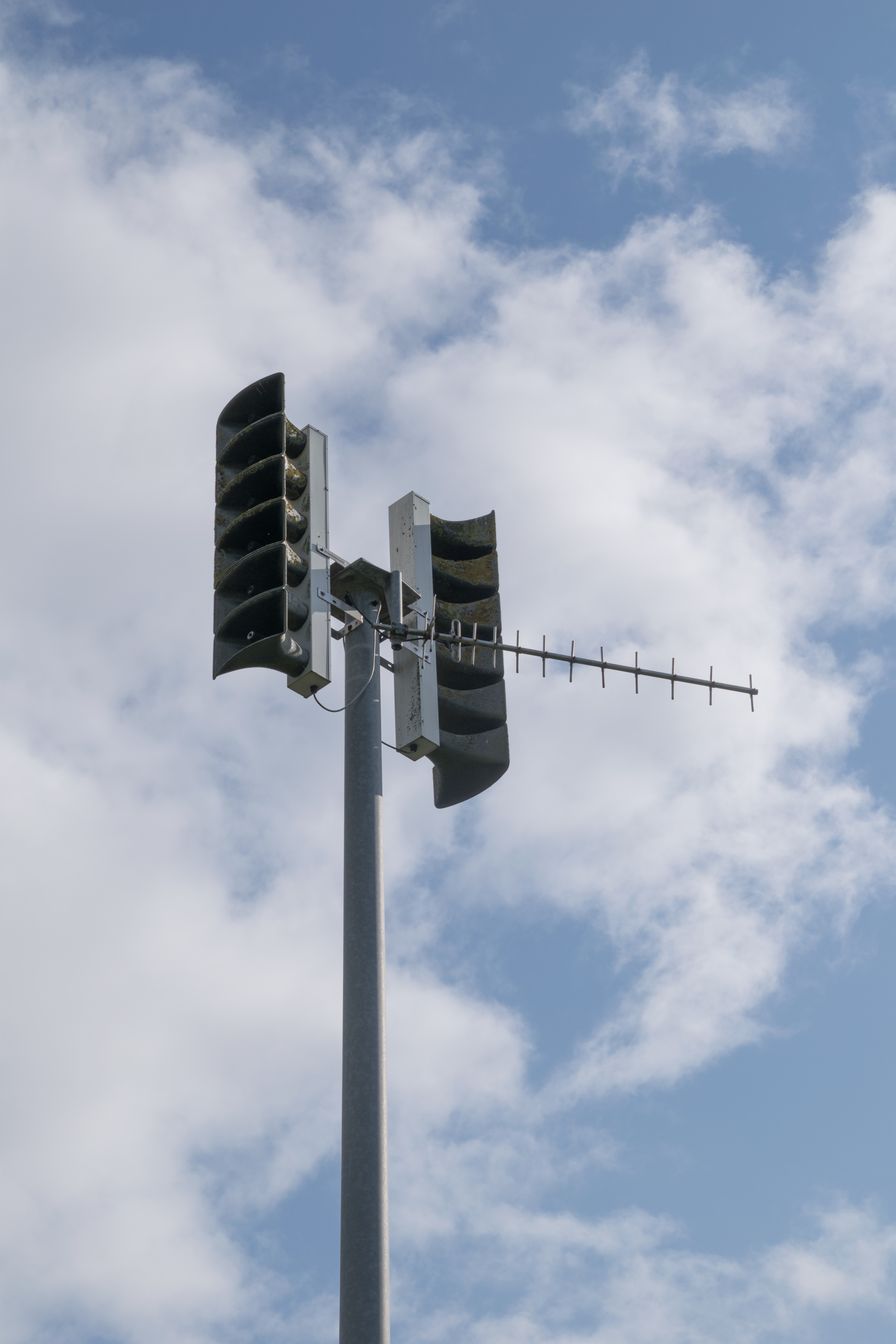 Public warning siren, part of the Severnside Sirens in Lamplighters Marsh, near Shirehampton, UK